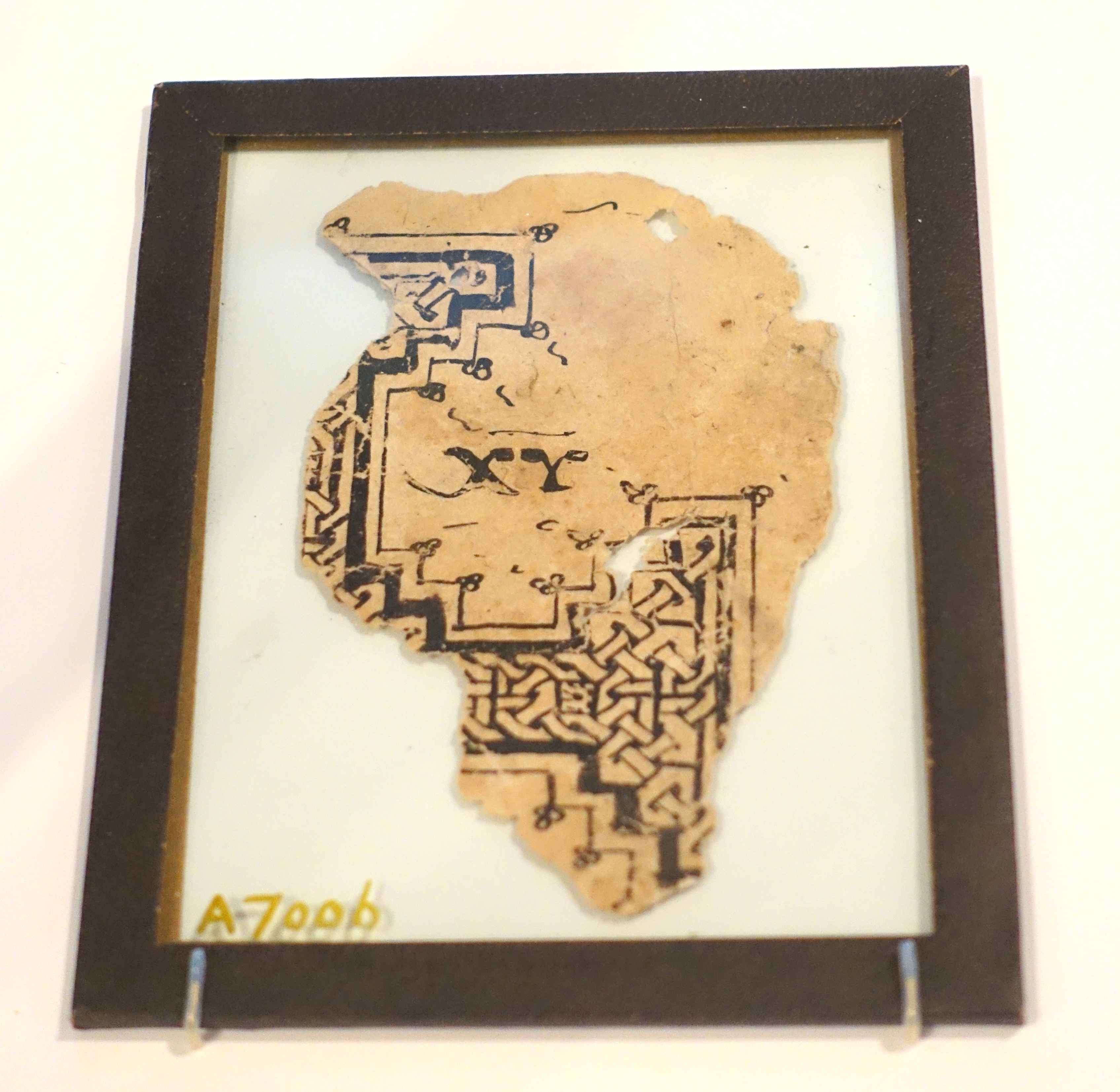 Exhibit in the Oriental Institute Museum, University of Chicago, Chicago, Illinois, USA. This work is old enough so that it is in the public domain.